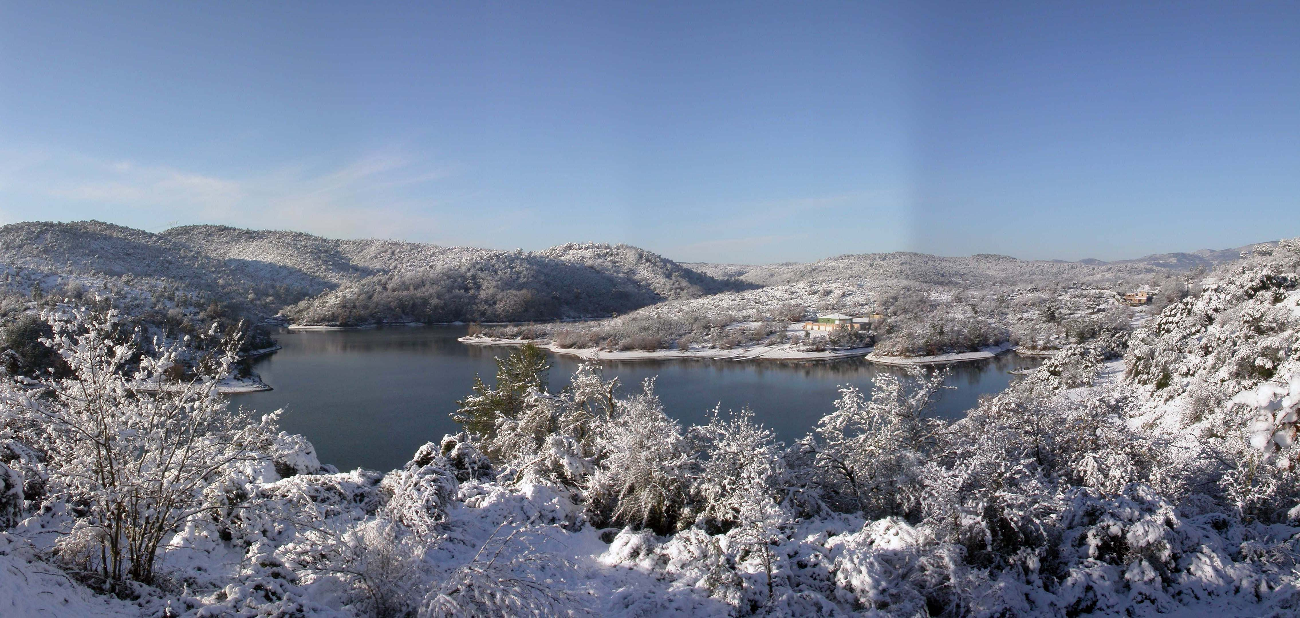 Saint-Cassien lake, Var, covered by mediterranean snow